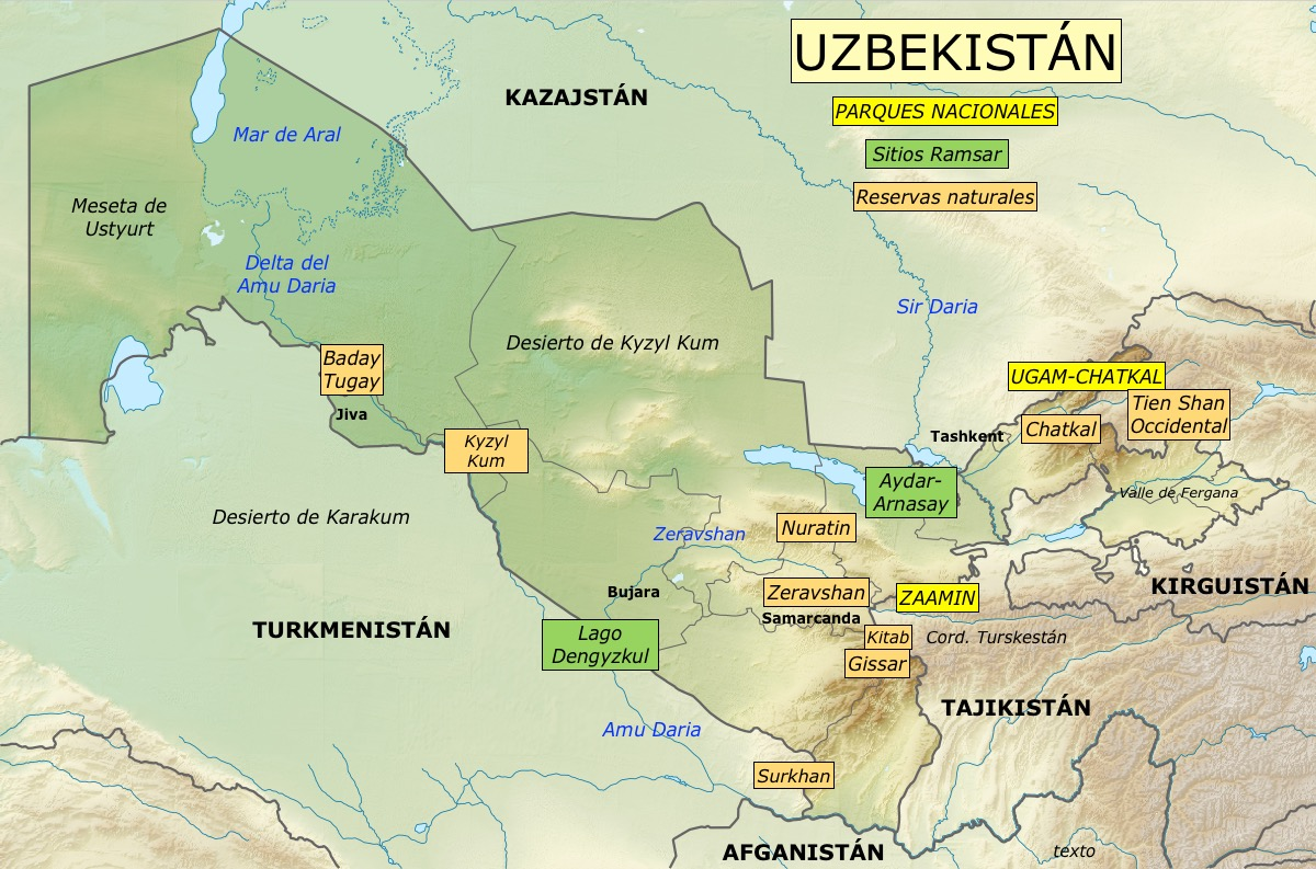 Protected areas of Uzbekistan